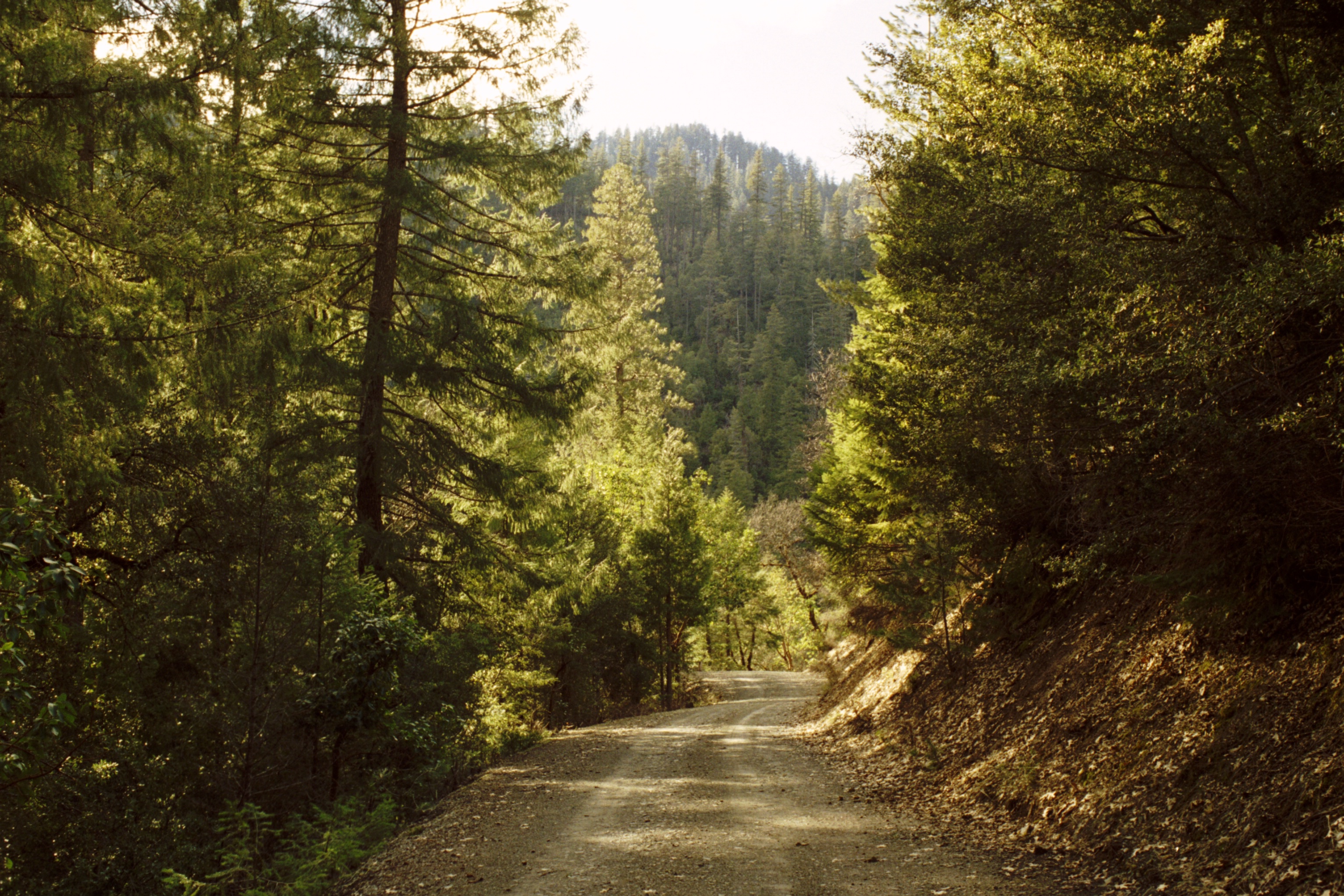 Klamath National Forest, NFS road 16N05 about 8 miles South of Happy Camp, California. California mixed evergreen forest habitat.